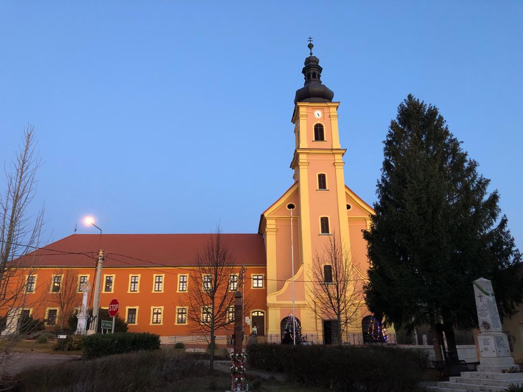 Andocs church full